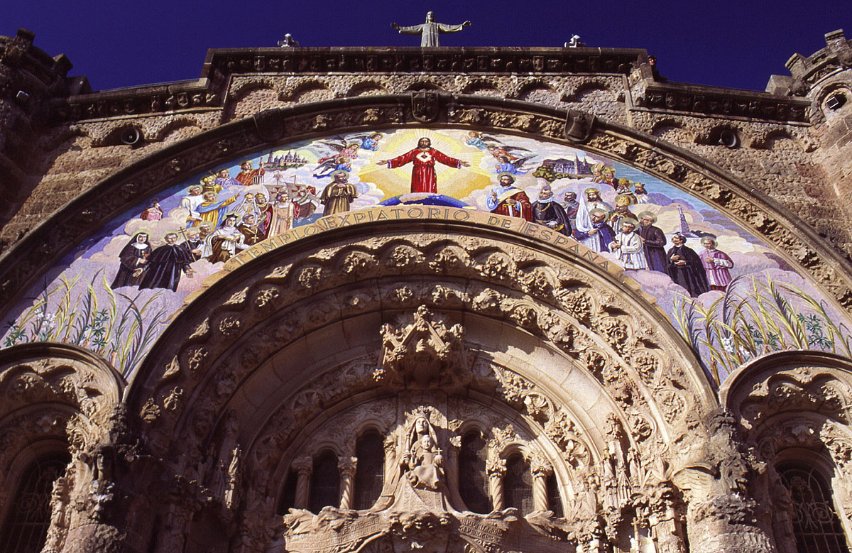 Detail above door of Temple de Sagrat Cor, Tibidabo, Barcelona, Spain 2002